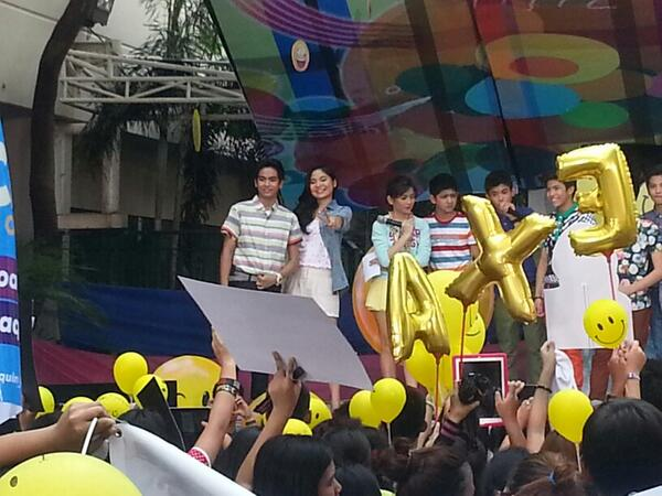 Sharlene San Pedro and Jairus Aquino during ASAP Fans Day on production number ASAP Galing on May 18, 2014.